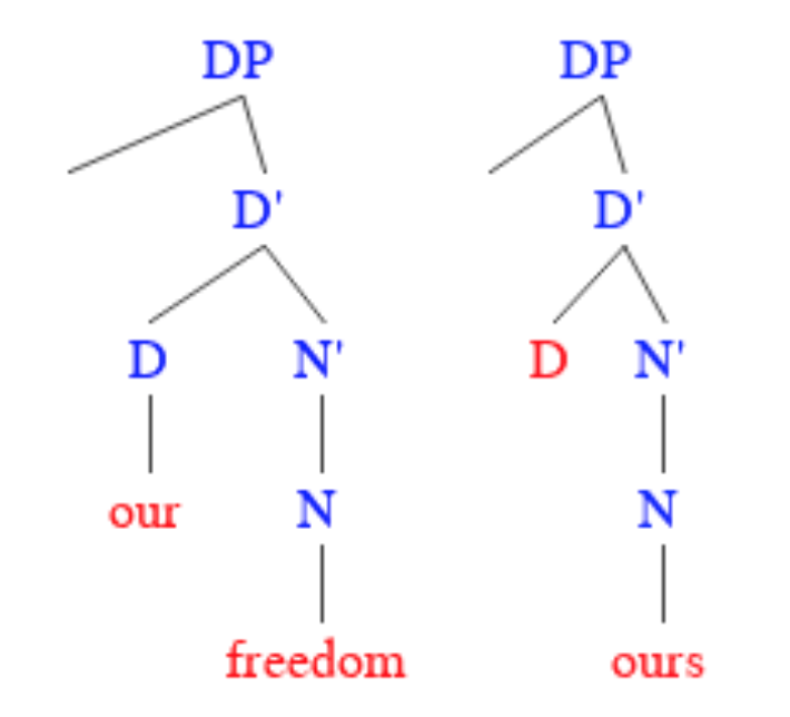 For pronoun wiki page, Examples of "our" as a determiner or a noun.